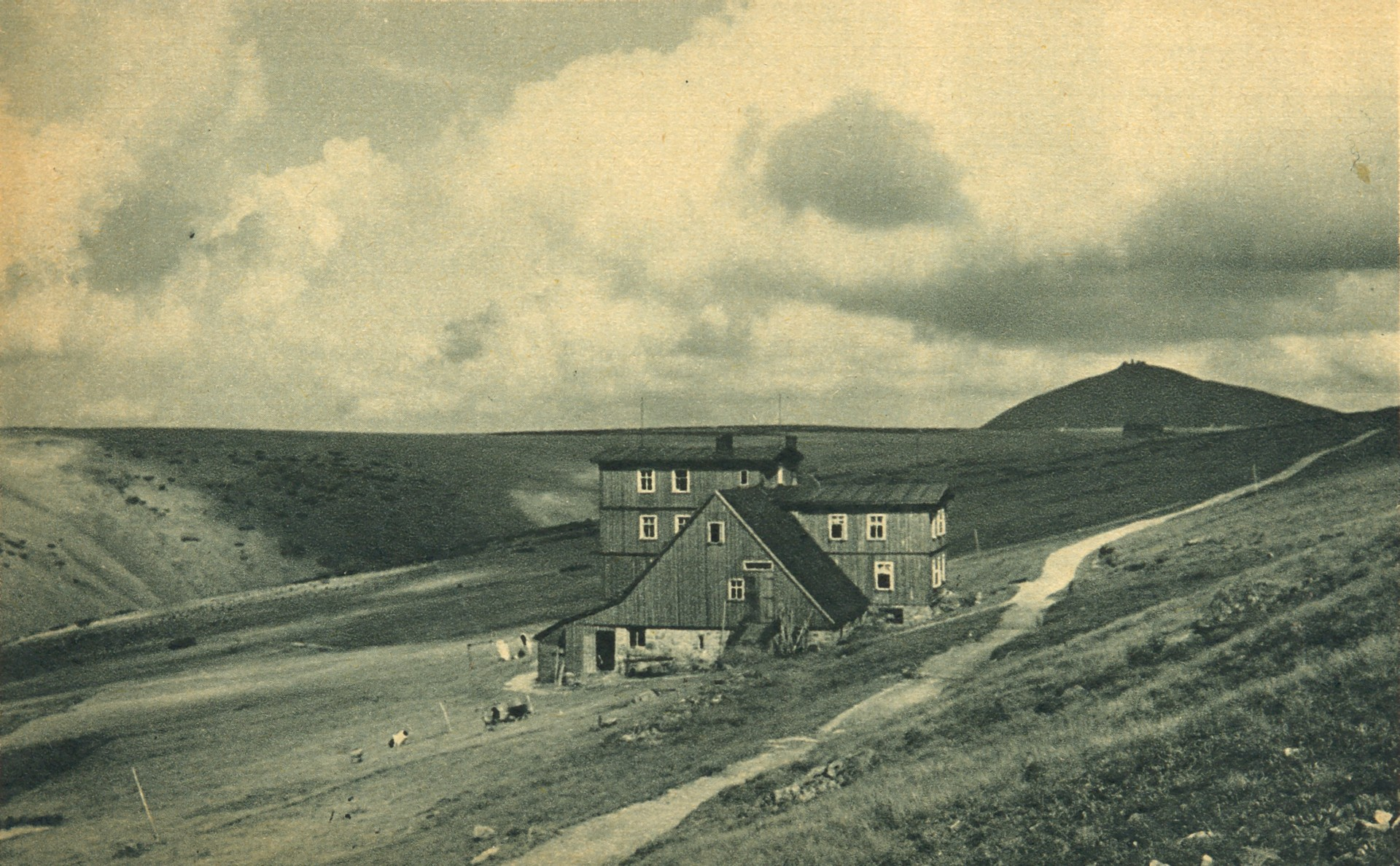 Renner huts